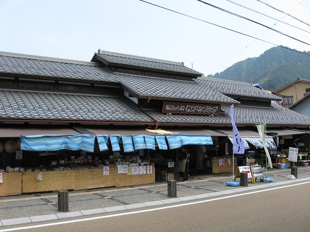 Gujo-Hachiman Bourg Plaza. Shop in Gujo,Japan., Gujo.